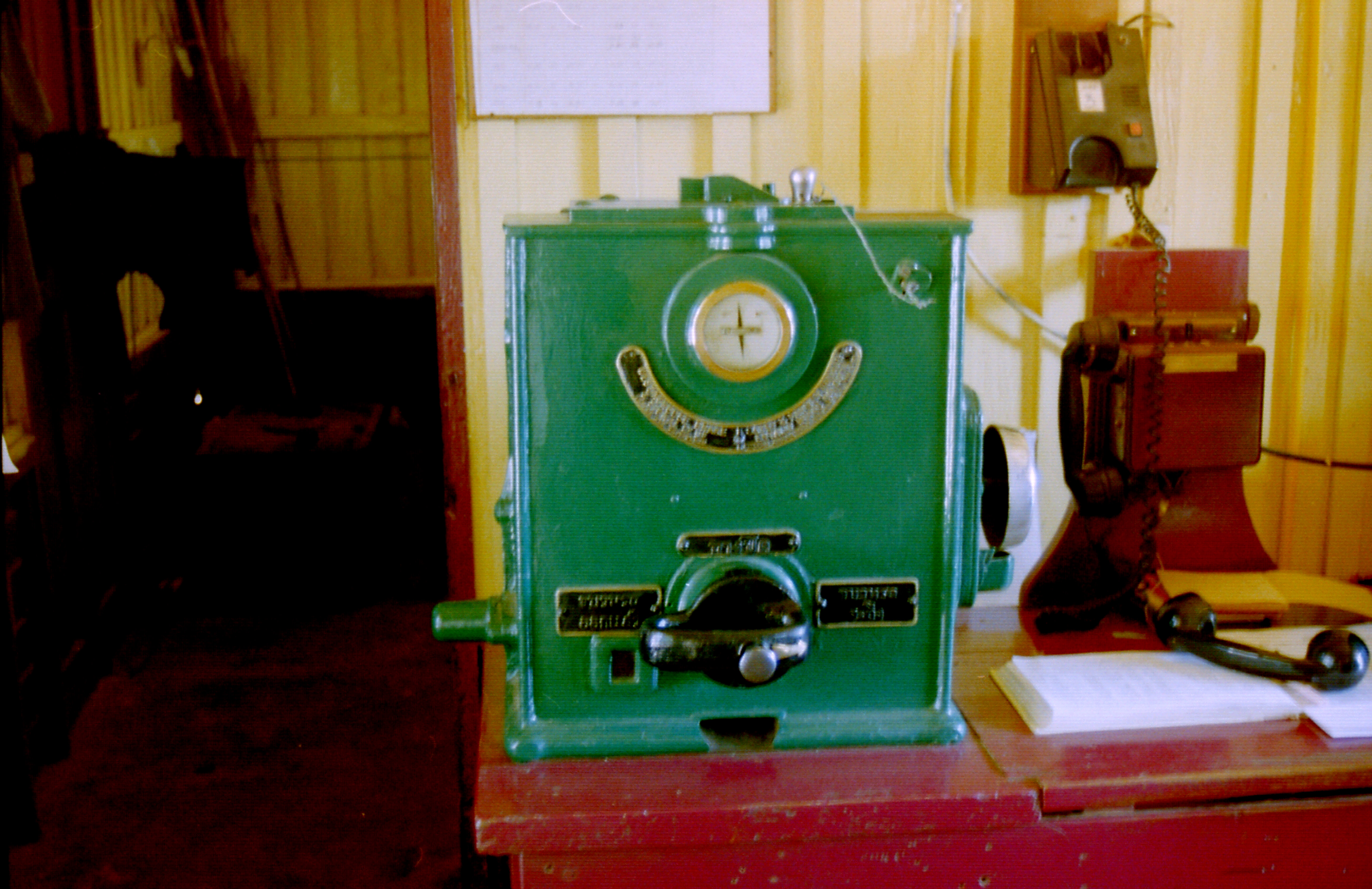 Neale's tablet token machine Manufactured by Westinghouse Brake & Signal Co. Photograph taken on the Thai Burma Railway in 2000.